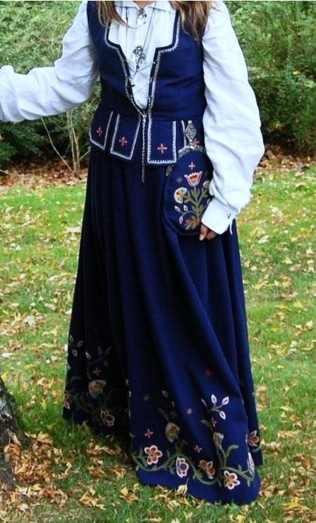 Picture taken of my daughter in the park by Sarpsborg kirke (Vest Oppland bunad)